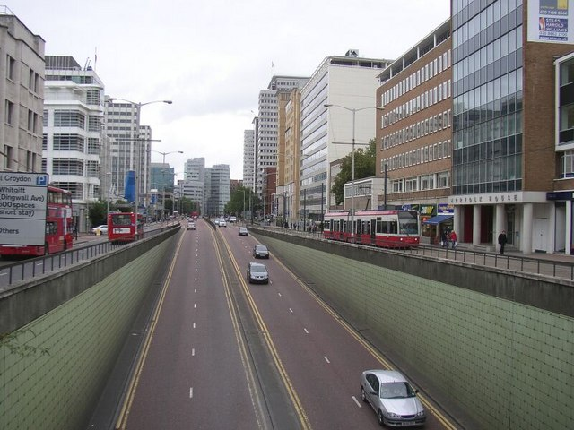 Wellesley Road Office Blocks taken from Croydon Underpass View from Croydon Underpass at Wellesley Road, looking north. Although difficult to show, the variety in shapes and sizes for office blocks abound here, covering designs from several decades. The underpass was constructed in the 1960s as part of a wider scheme to improve traffic flow in the centre of Croydon - although some say it just moved the traffic jams to a different point! Since the late 1990's the road use and layout at this junction has changed considerably, following the introduction of modern trams.